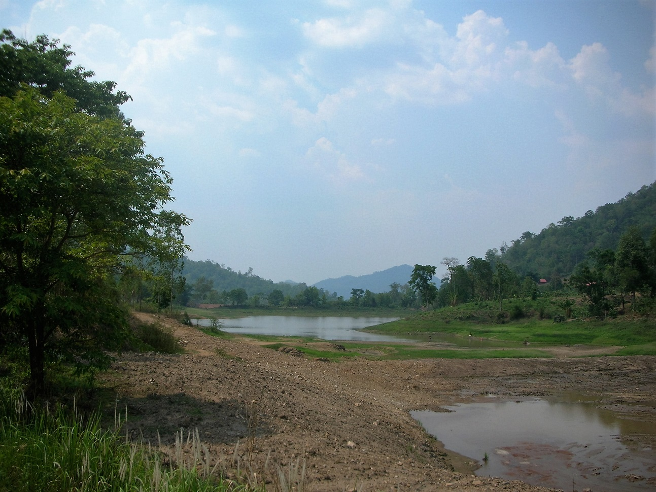 Pond near the Myanmar border in Tambon Bong Ti, Kanchanaburi Province